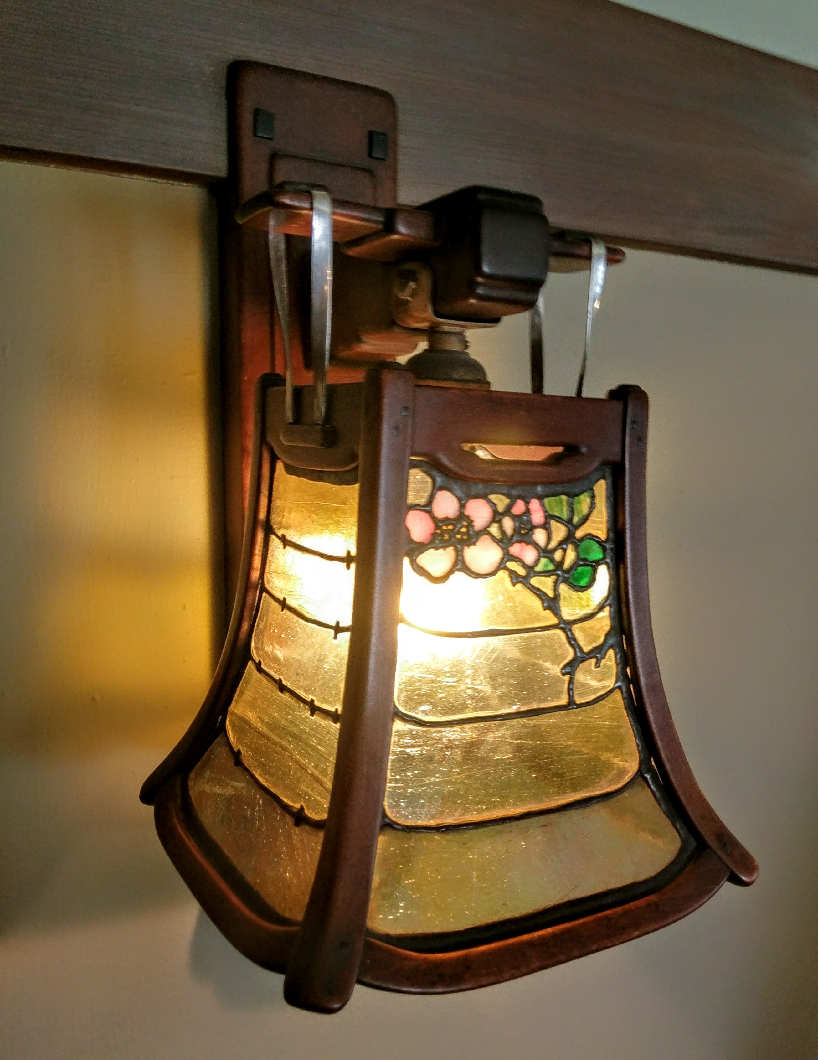 A wall sconce at the Gamble House in Pasadena, California. Photo by Jim Heaphy.